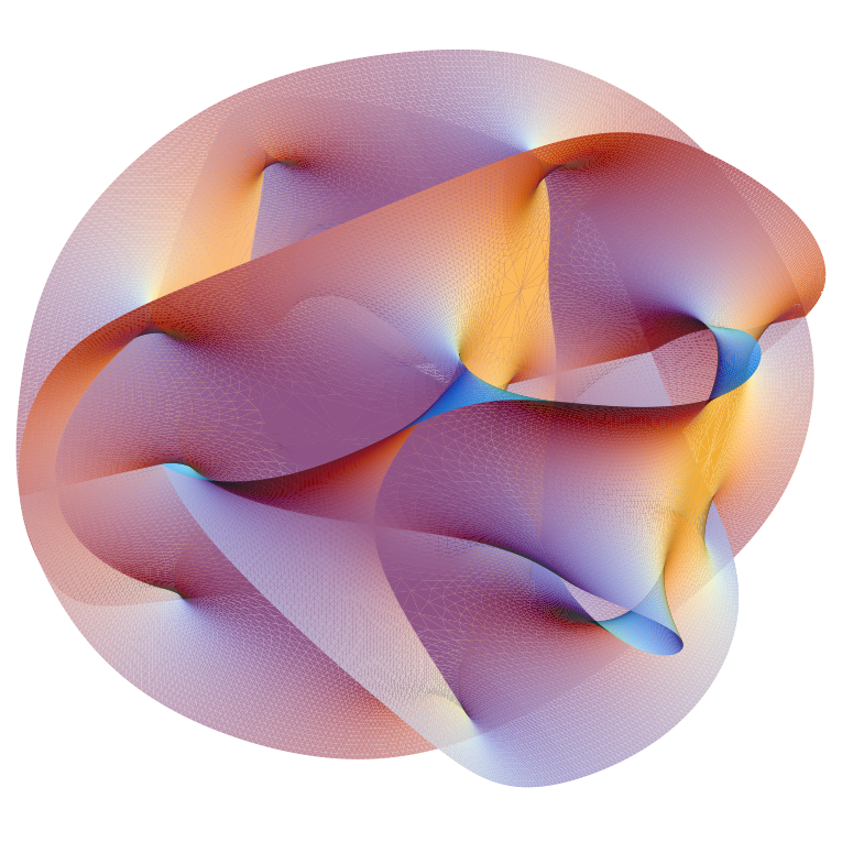 An alternate version of File:Calabi-Yau.png. This version is slightly transparent. The boundaries of triangles are also rendered in a lighter color allowing one to note the five-fold symmetry at some vertices.This image of the Calabi–Yau manifold appeared on the cover of the November 2007 issue of Scientific American.